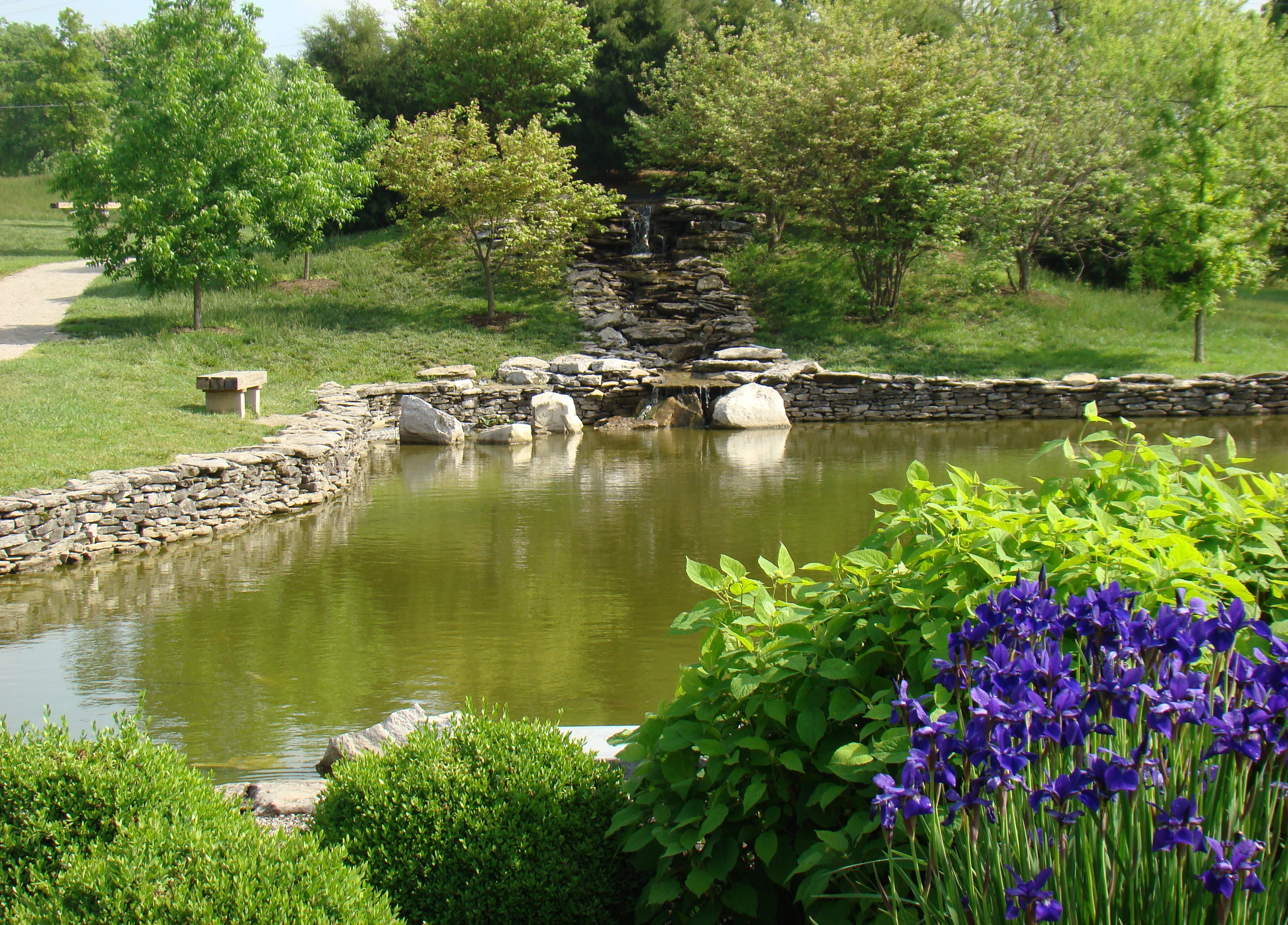 Koi pond and Upper waterfalls at Yuko-En on the Elkhorn, a Japanese Friendship Garden located in Georgetown, Kentucky.